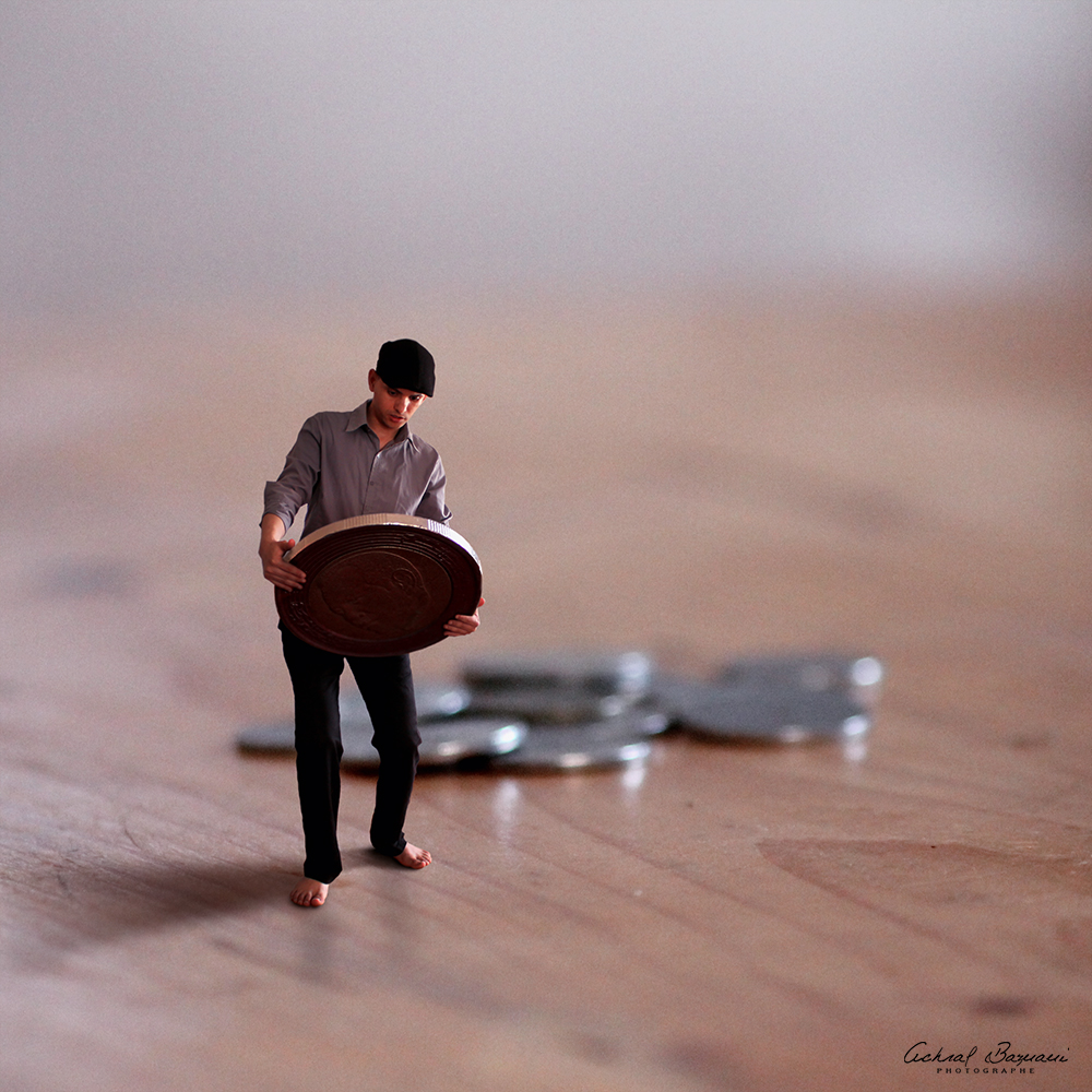 Coin a photography by Achraf Baznani